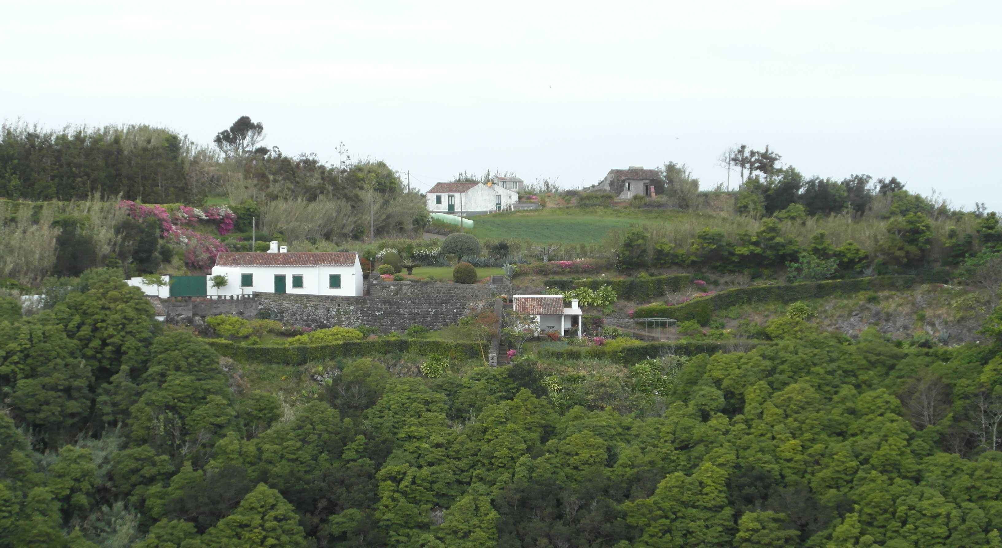 Lomba da Cruz